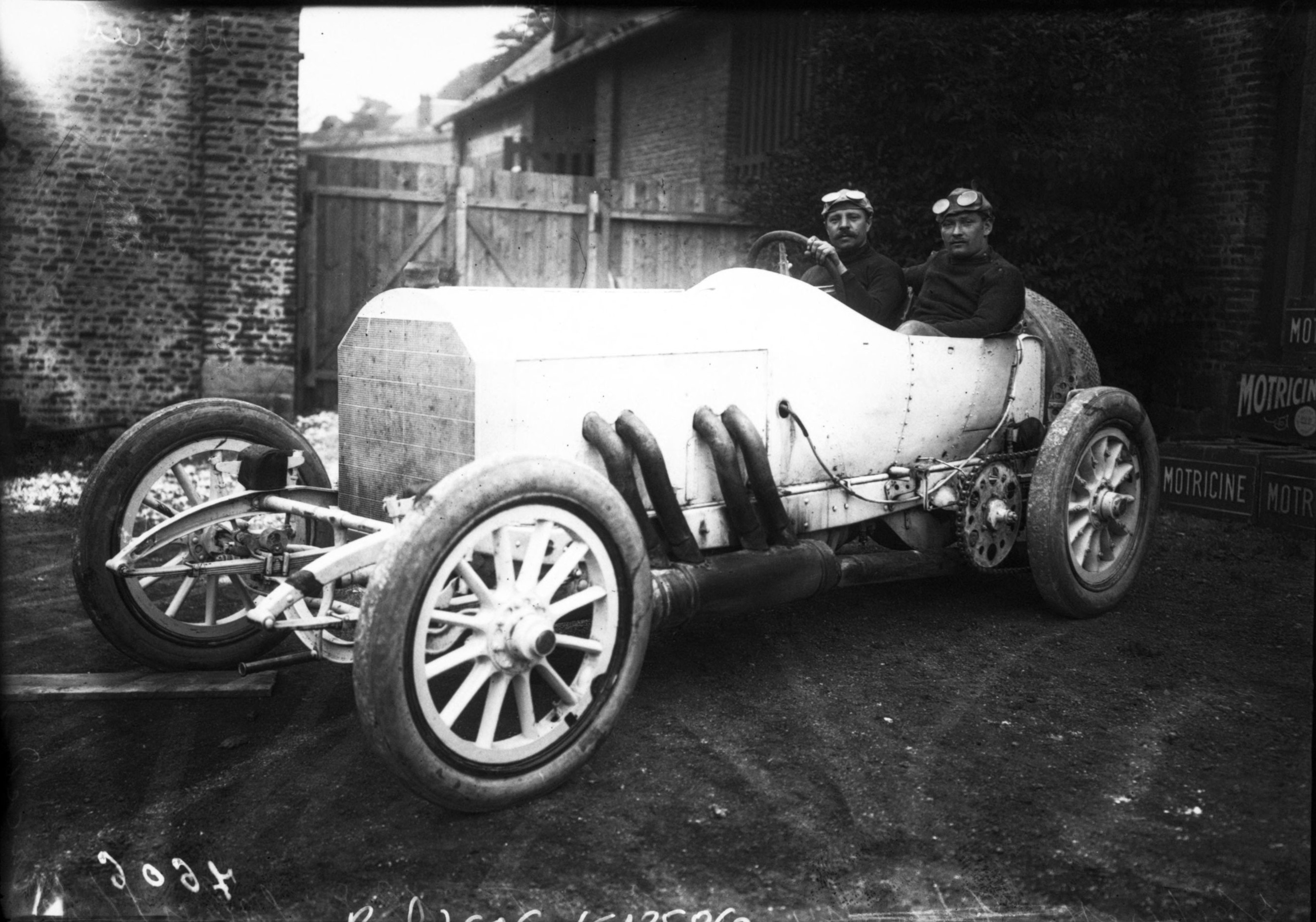 Otto Salzer in his Mercedes at the 1908 French Grand Prix